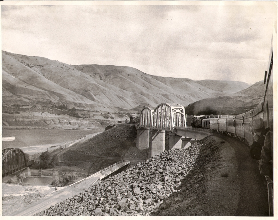 Photo by R. W. Rynerson on 1967 Union Pacific RR excursion shows depth of John Day Dam pool, yet to be filled when photo was shot. Columbia River is at far left, old UPRR bridge at left, then old US30 highway bridge closest to rail line. Rail line was relocated to the elevation shown in order to remain above floodwater levels. I-80N highway bridge (today I-84) is to right of locomotive.